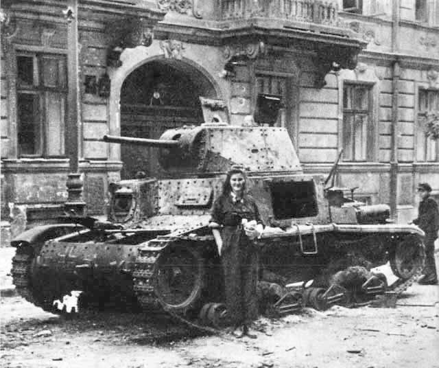 Warsaw Uprising: Courier, Alina Nawrocka posing in front of destroyed Italian tank Fiat M13/40 - Pz.Kpfw 736(i) after fights for Mała PASTa building.